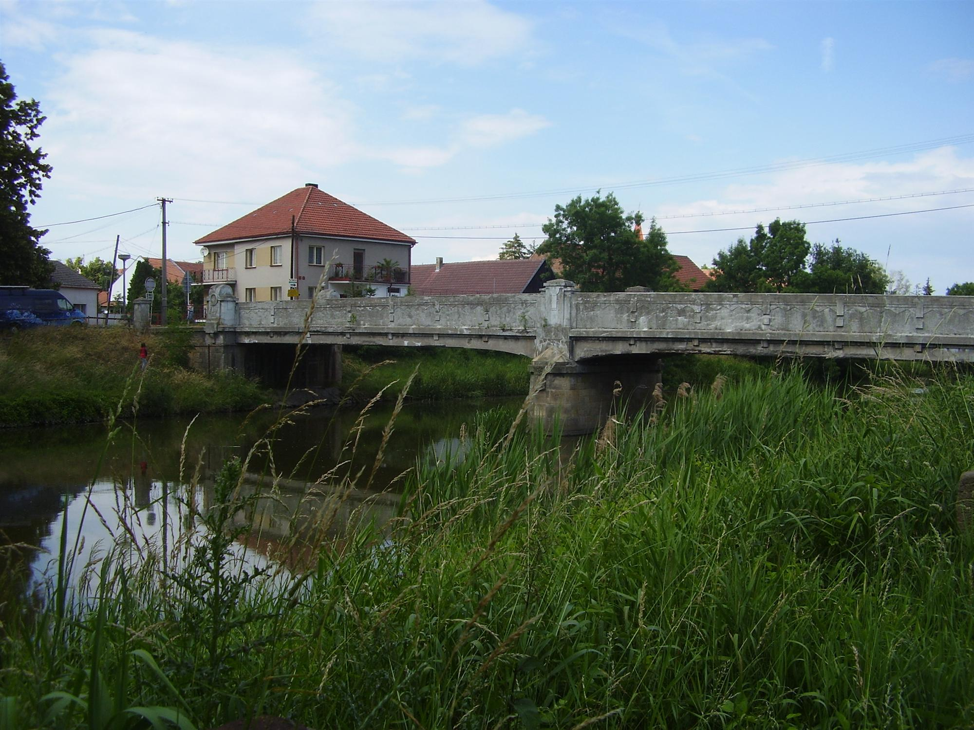 Stone bridge in Libice nad Cidlinou, Central Bohemian Region